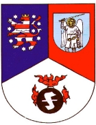 coat of arms military training area